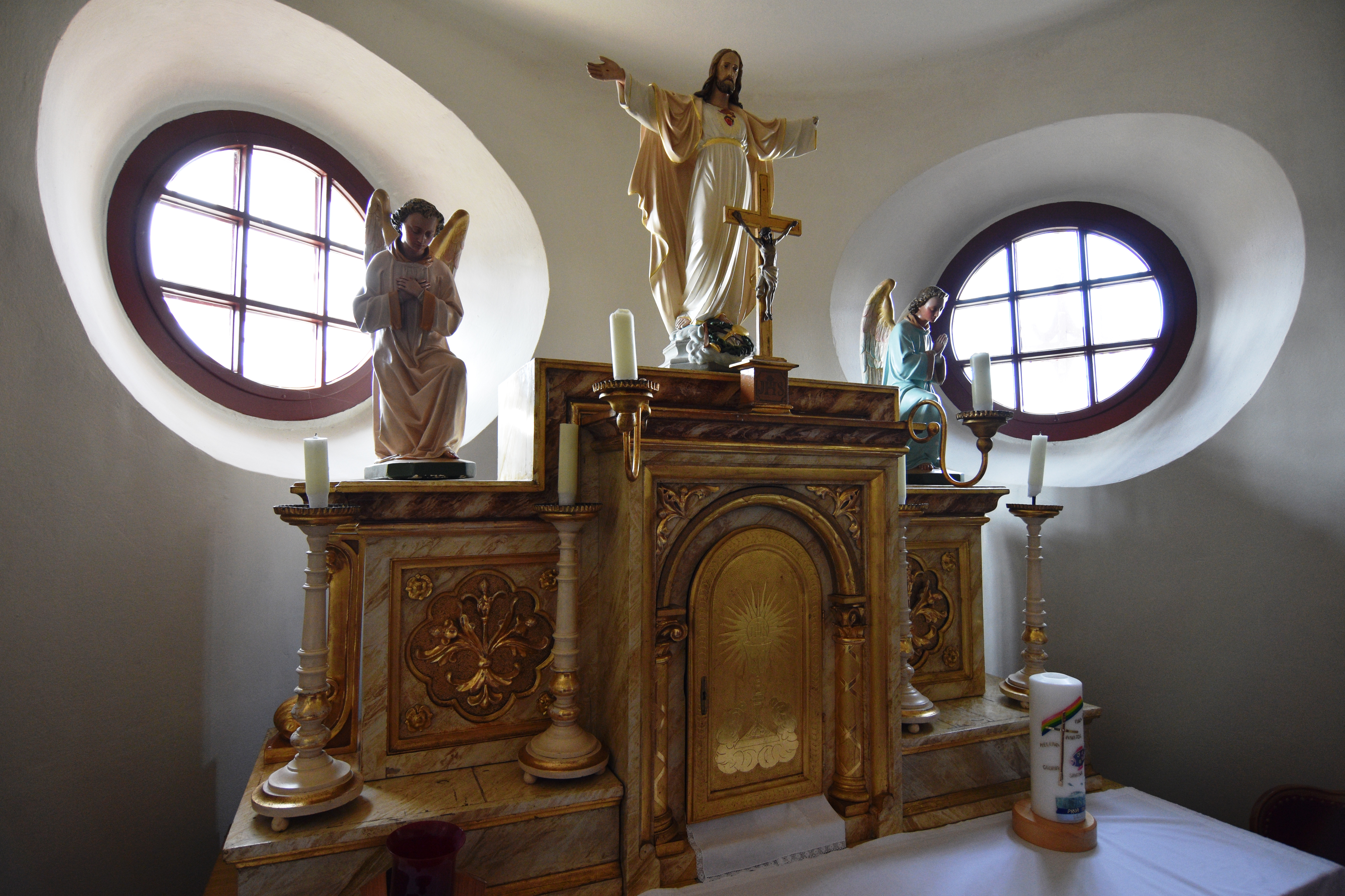 Church Güttenbach - Interior